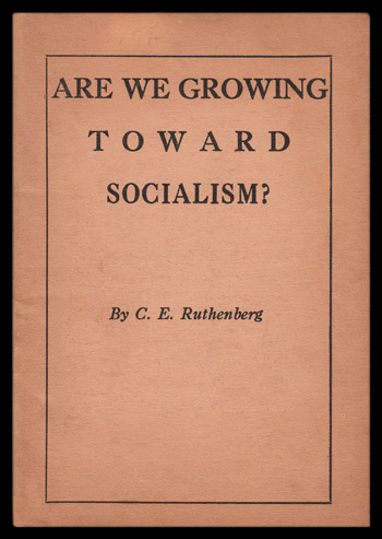 Cover of C.E. Ruthenbeg's Are We Growing Toward Socialism, 1917. Published by Local Cleveland, Socialist Party First publication of the future Communist Party leader. Published in USA prior to 1923, public domain. Specimen in Tim Davenport collection, scanned for Wikipedia.